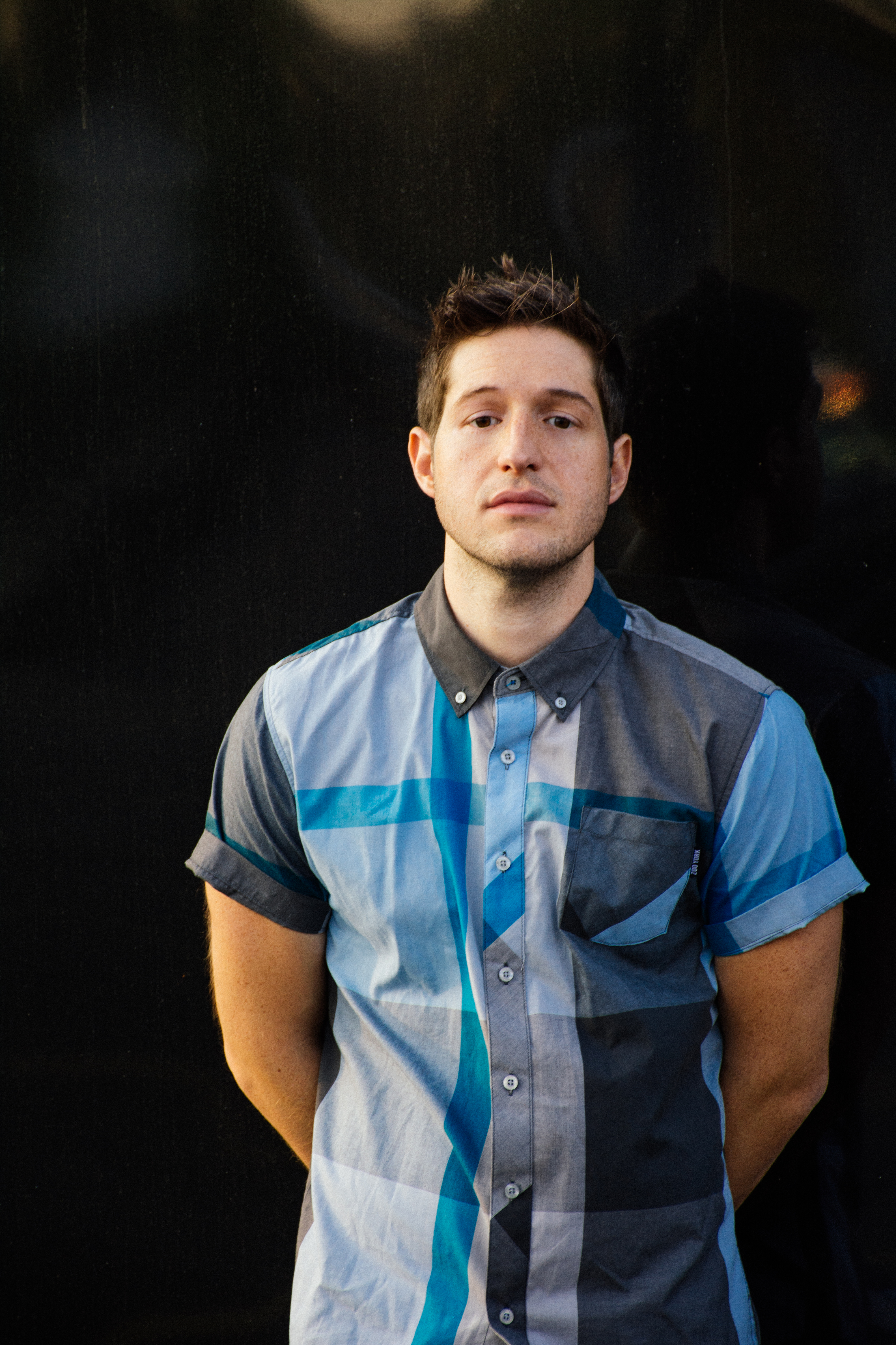 FortWayneisnotFeelingYourNose Licensing